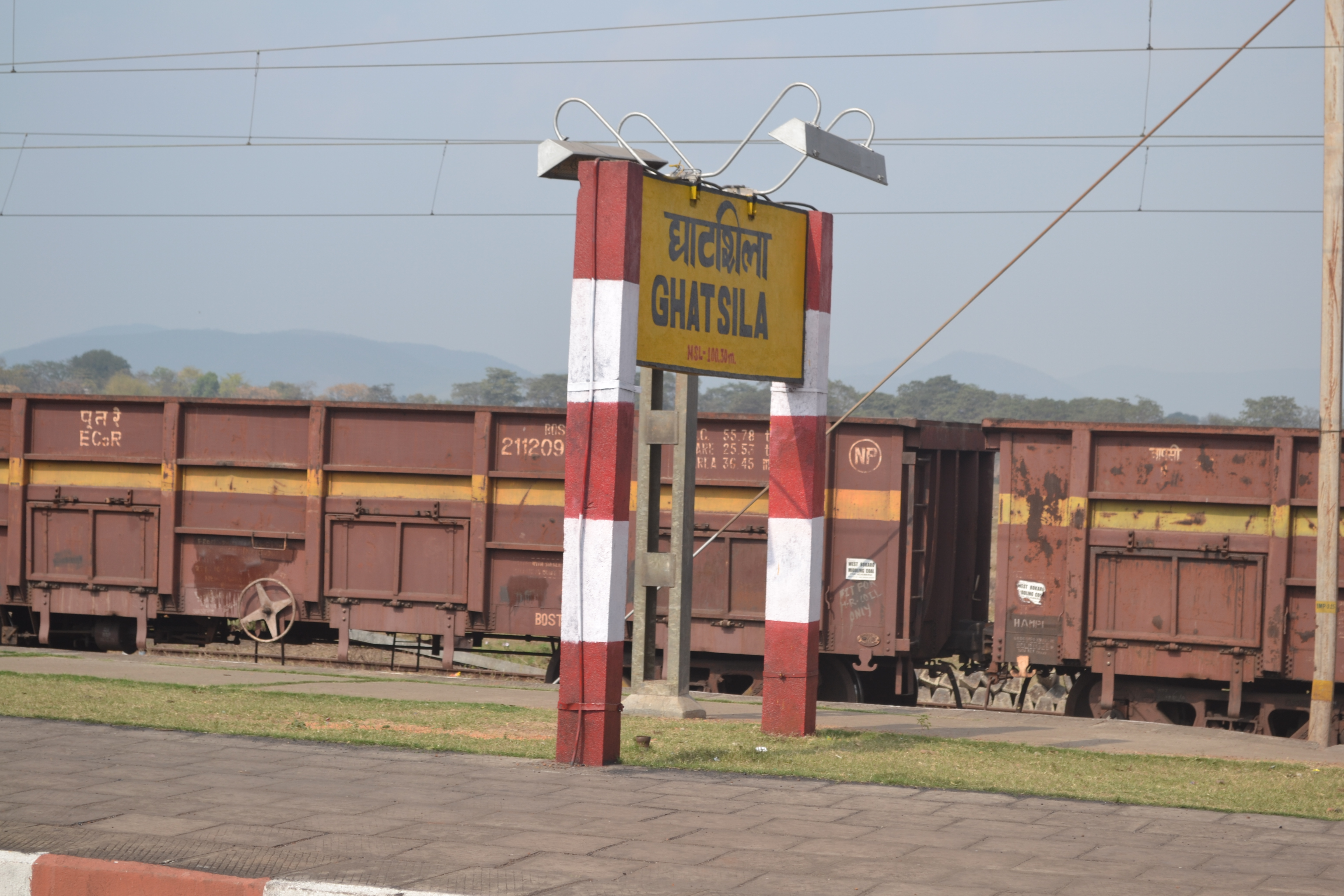 Ghatshila Railway Station, Jharkhand, India